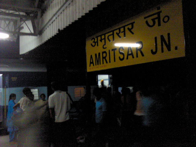 Amritsar Railway Station at night